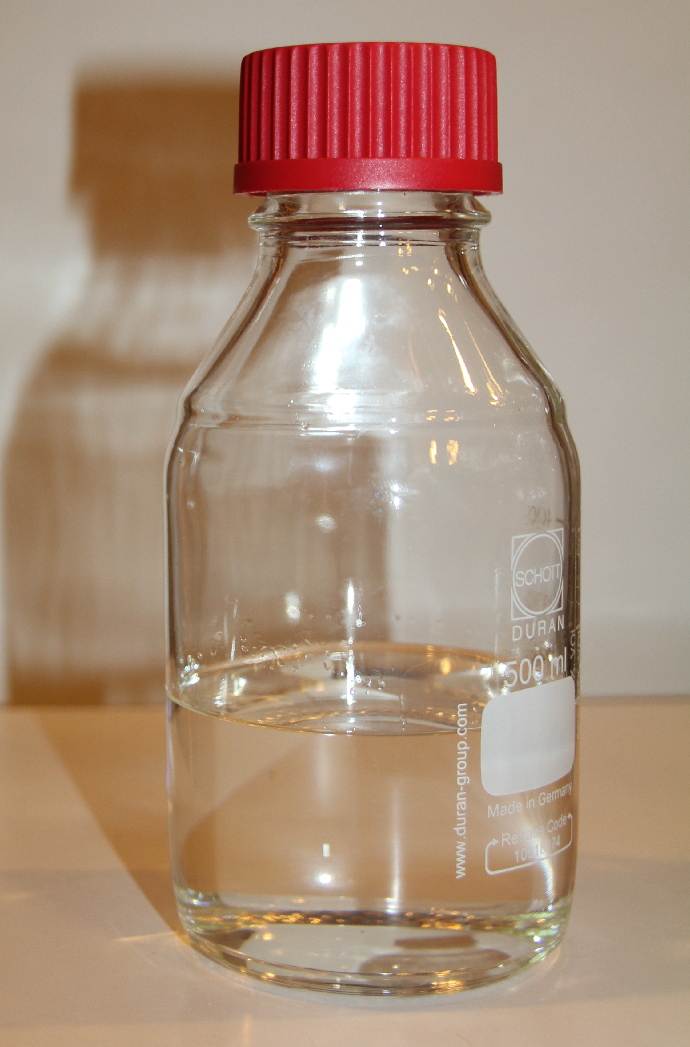 Sample of dichloromethane